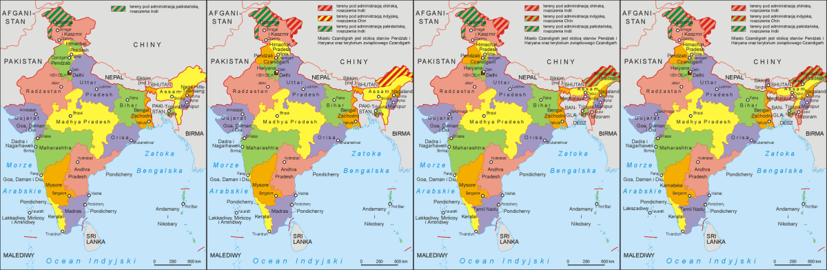 Territorial evolution of India 1961–1975